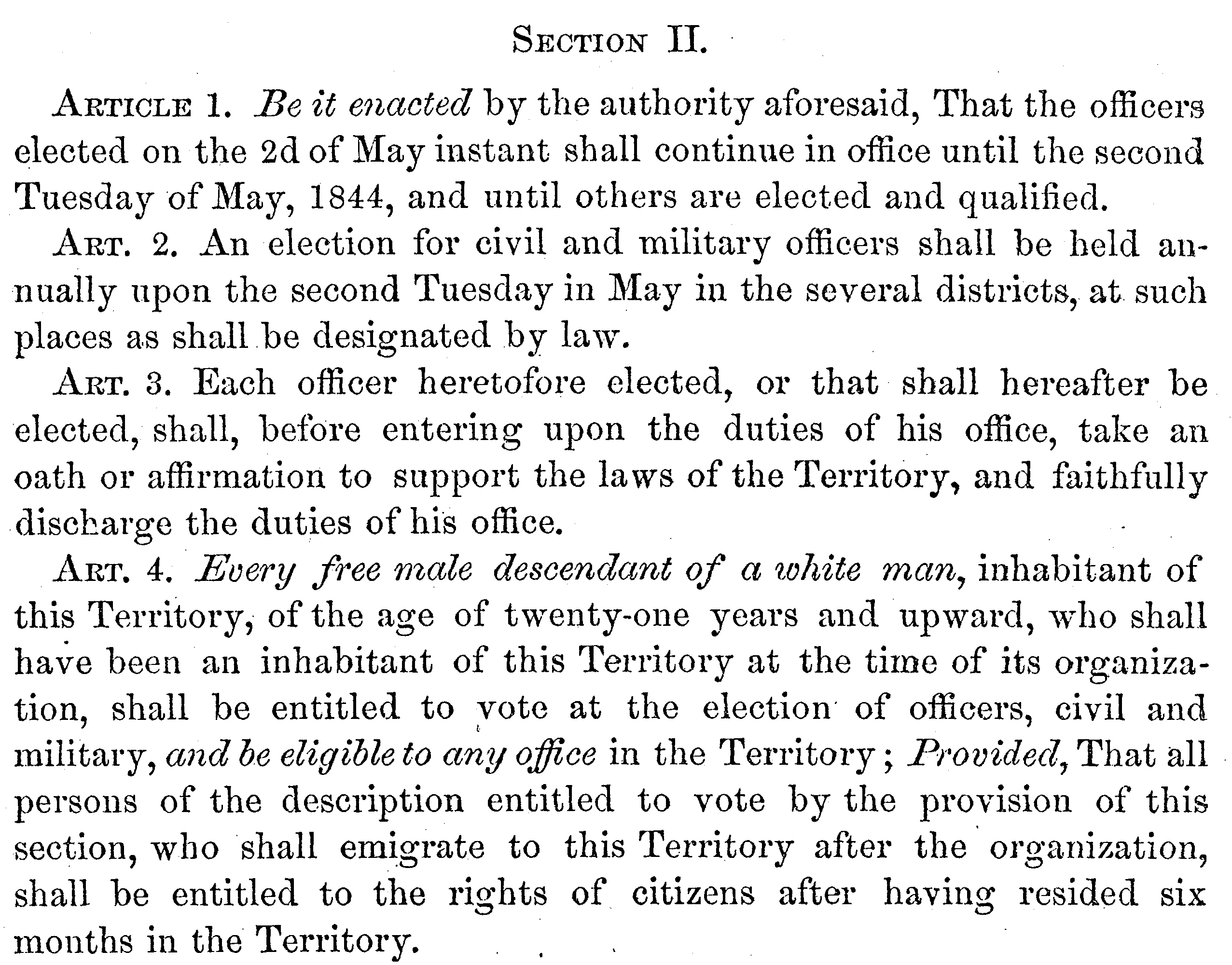 Organic Laws of Oregon from: Gray, William H. A History of Oregon, 1792-1849, Drawn from personal observation and authentic information. Harris & Holman: Portland, OR. 1870